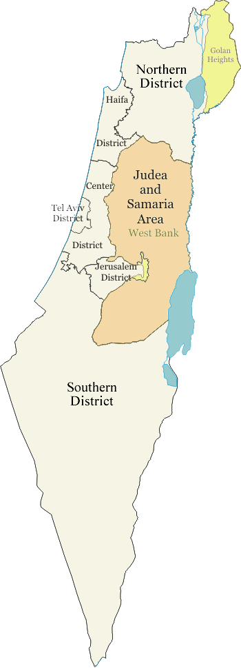 Districts of Israel, labelled.